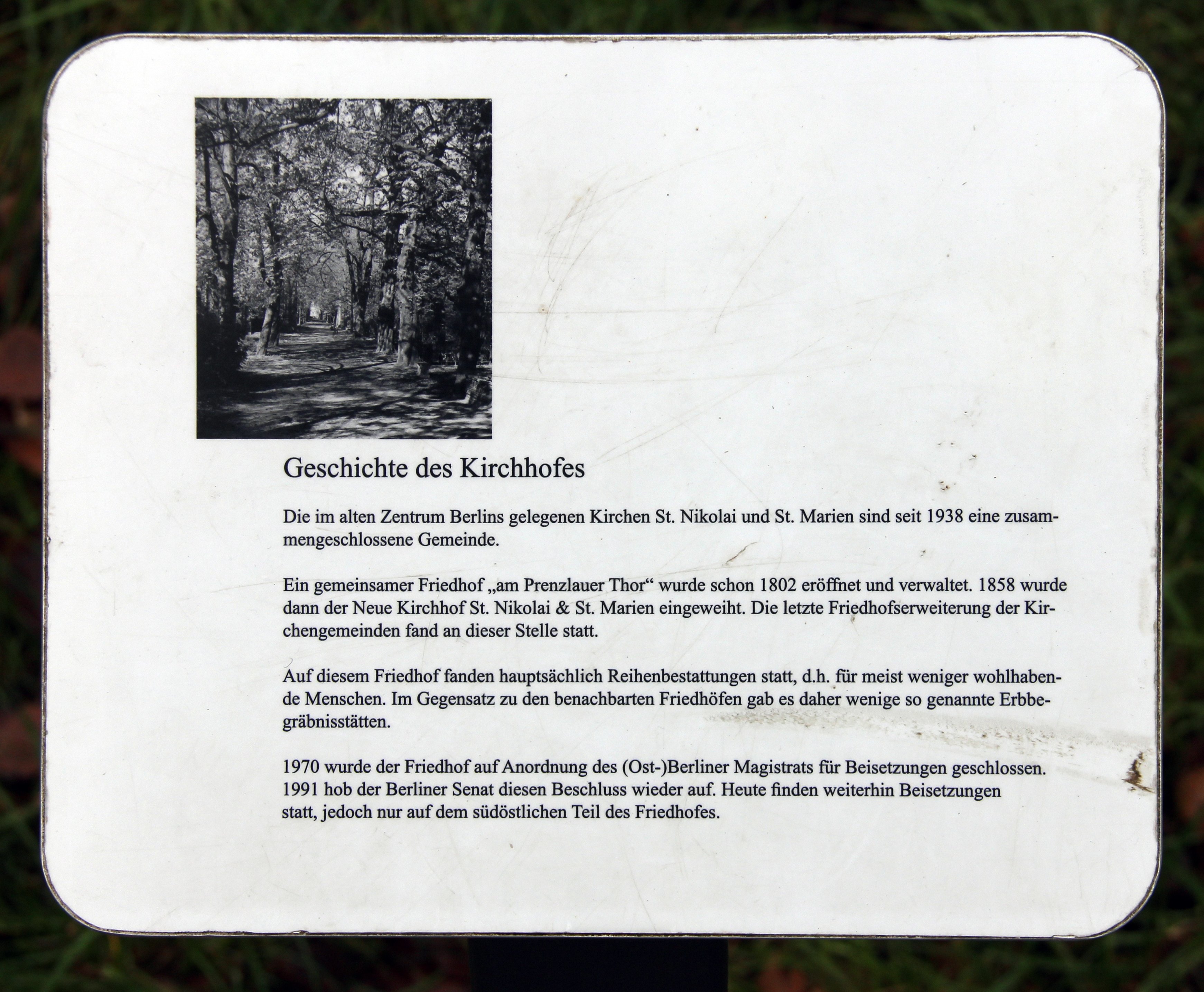 Memorial plaque, Leisepark, Heinrich-Roller-Straße 3, Berlin-Prenzlauer Berg, Germany